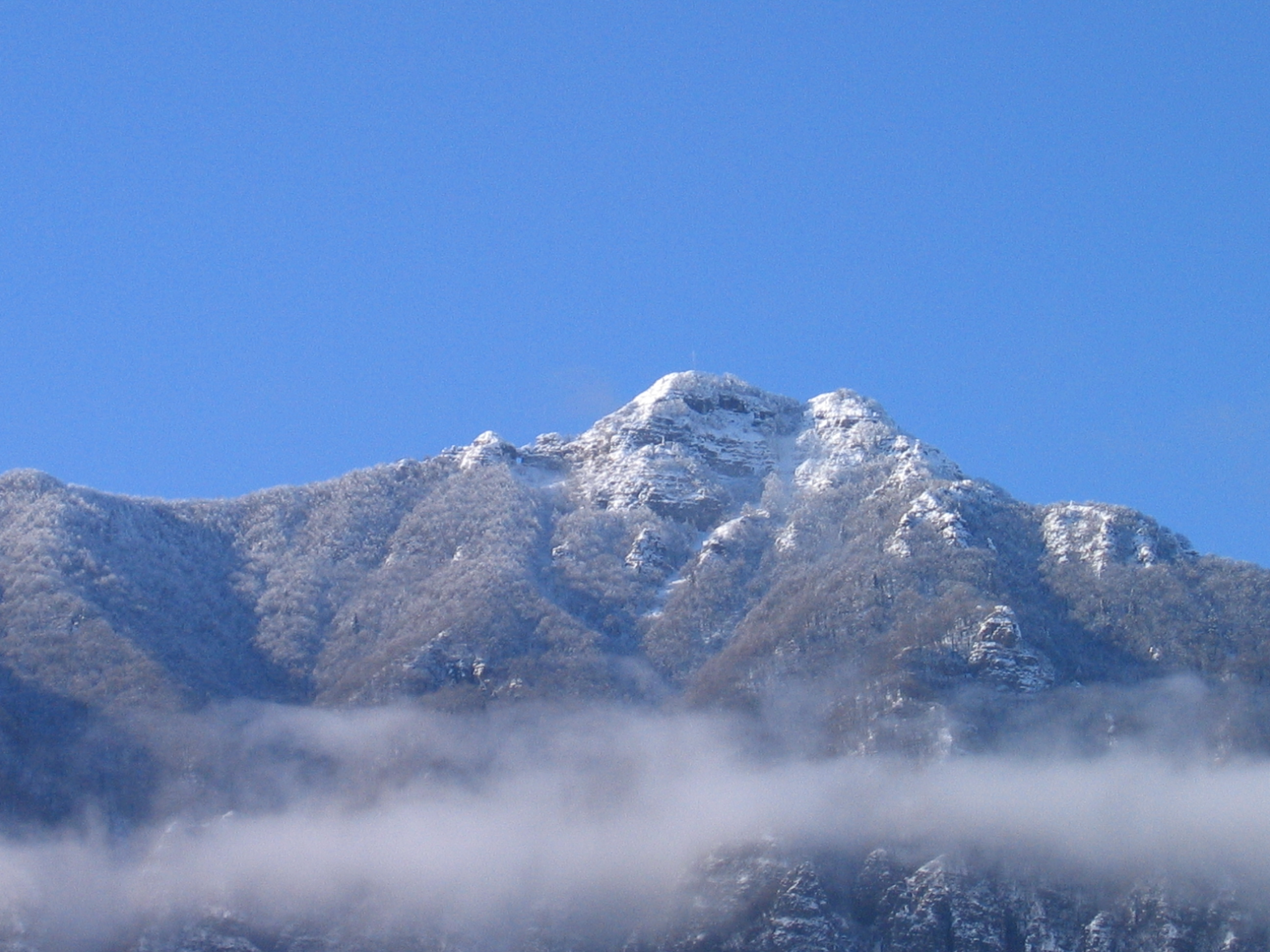 Picture of mount Priaforà (Velo d'Astico, VI, Italy)